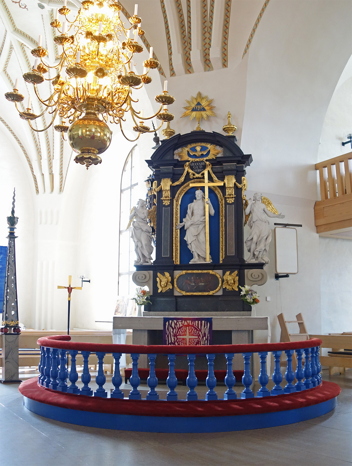 The altar of Öjeby church, Piteå, northern Sweden. The altarpiece is from 1704 and made by Caspar Schröder.